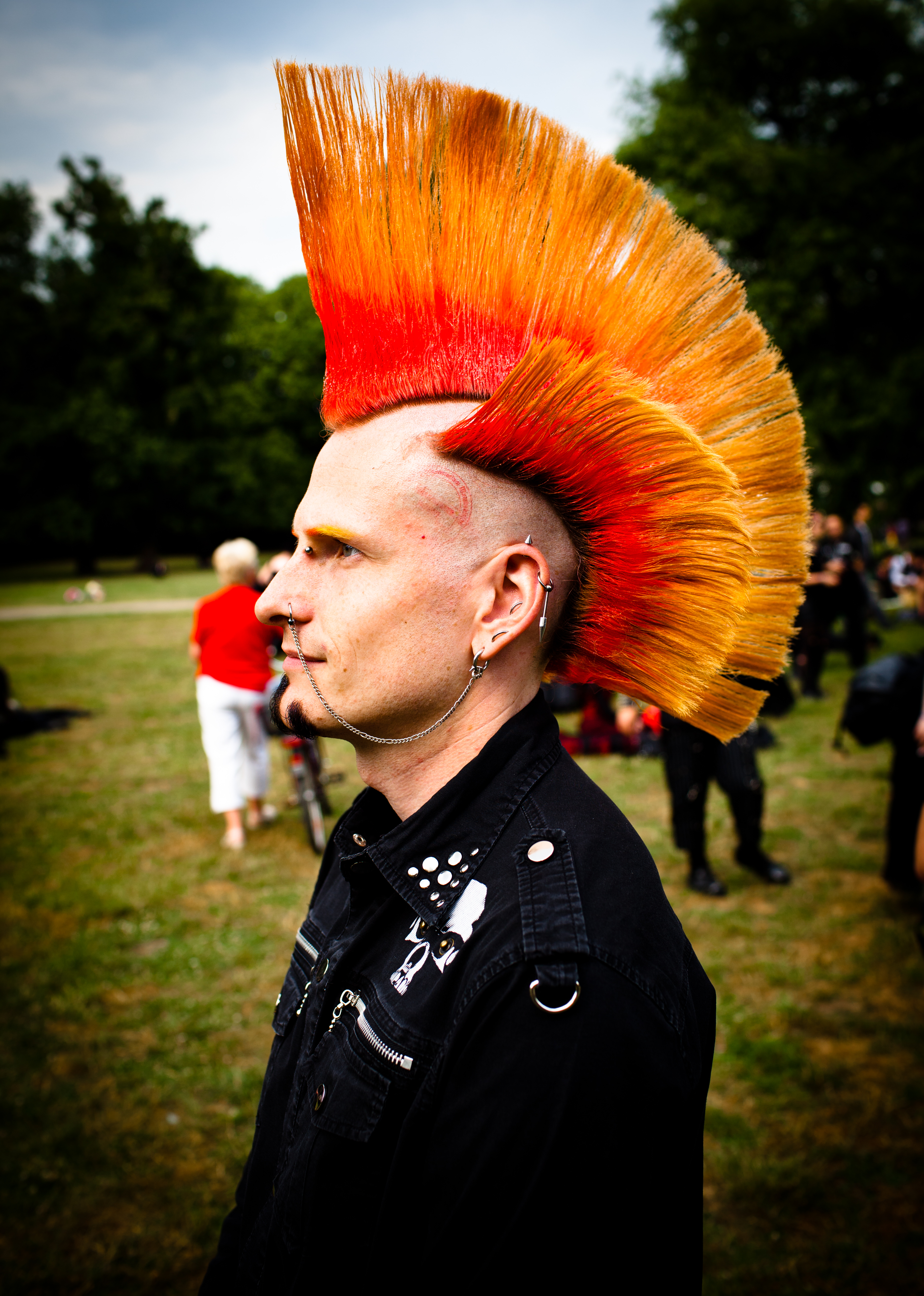 Taken at the Wave Gotik Treffen festival, Leipzig, Germany, June 2011